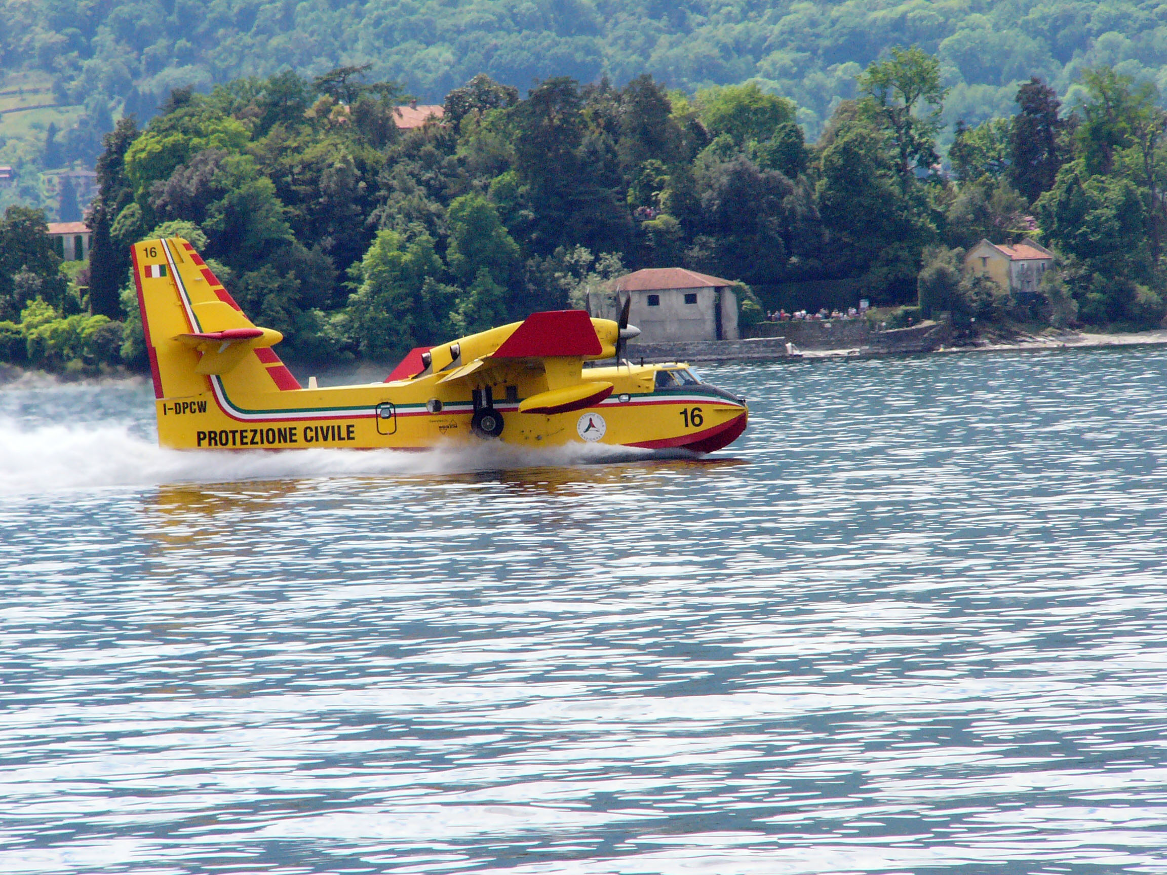 Canadair CL-415 demonstration, at Verbania (Ali sul lago maggiore, Verbania, Italy)